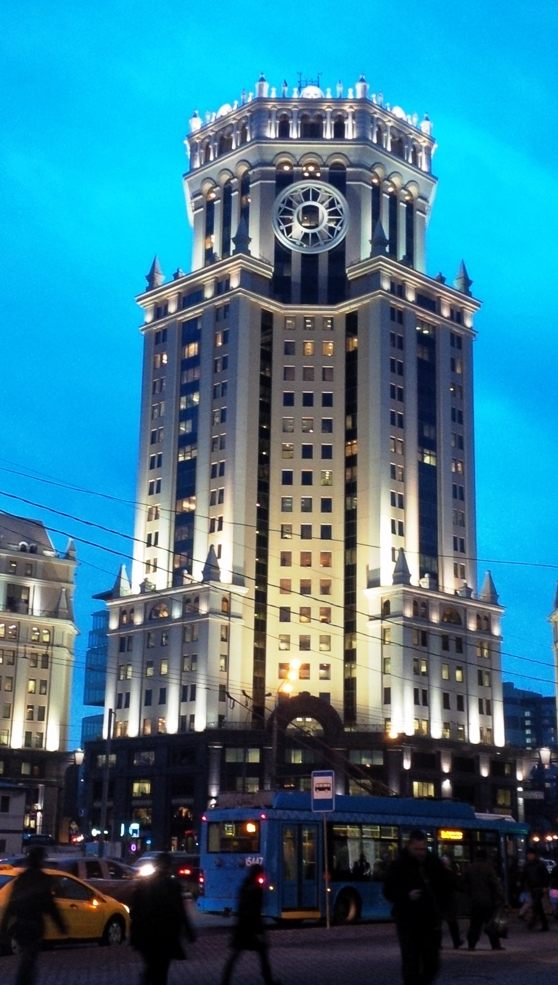 Aquilon Paveletskaya Square Moscow